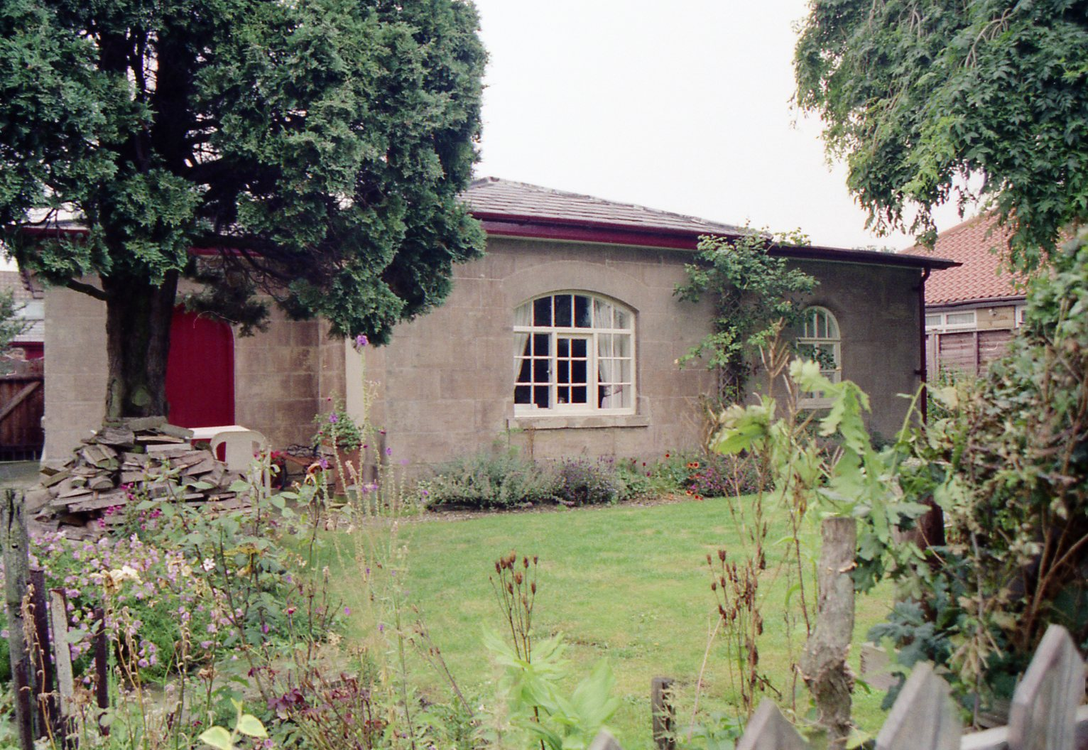 The sole remaining inhabited W&P Railway building at the top of the Beckhole Incline, Goathland, North Yorkshire, UK